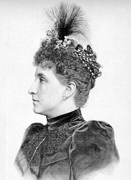 Australian soprano Nellie Melba (1861-1931).